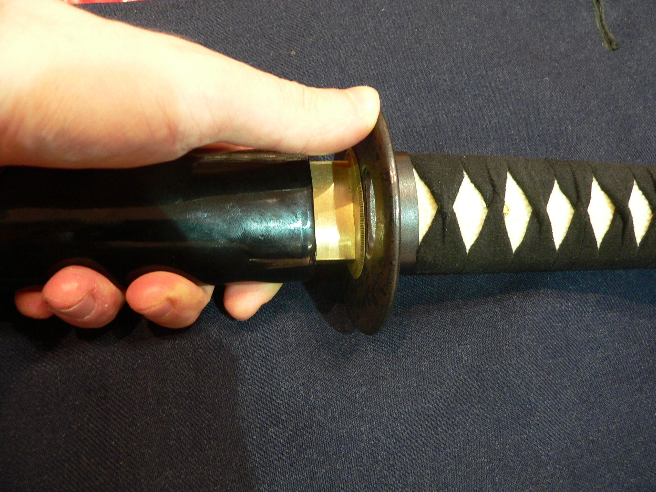 啖呵を切る ("Koiguchi-o kiru"): act of pushing a katana out of its saya by its tsuba, uncovering the habaki which locks the weapon in its shaft.